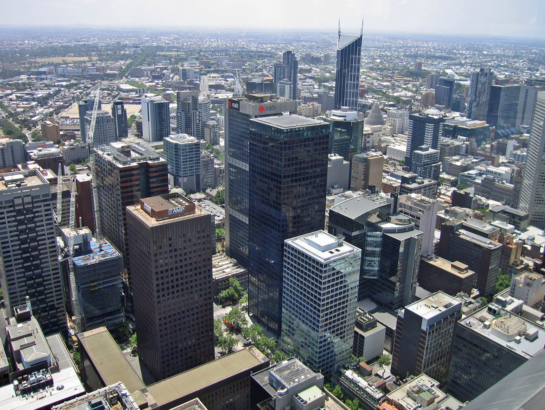 Melbourne CBD